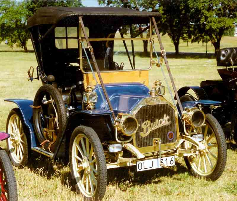 1911 Buick Model 14 Runabout